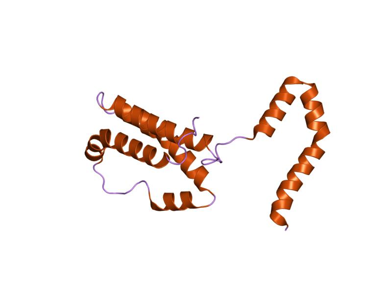 Cartoon representation of the molecular structure of protein registered with 1ilk code.